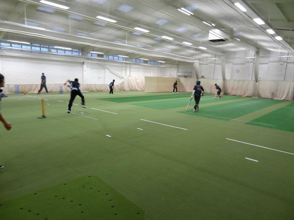 jn gfmnmjym